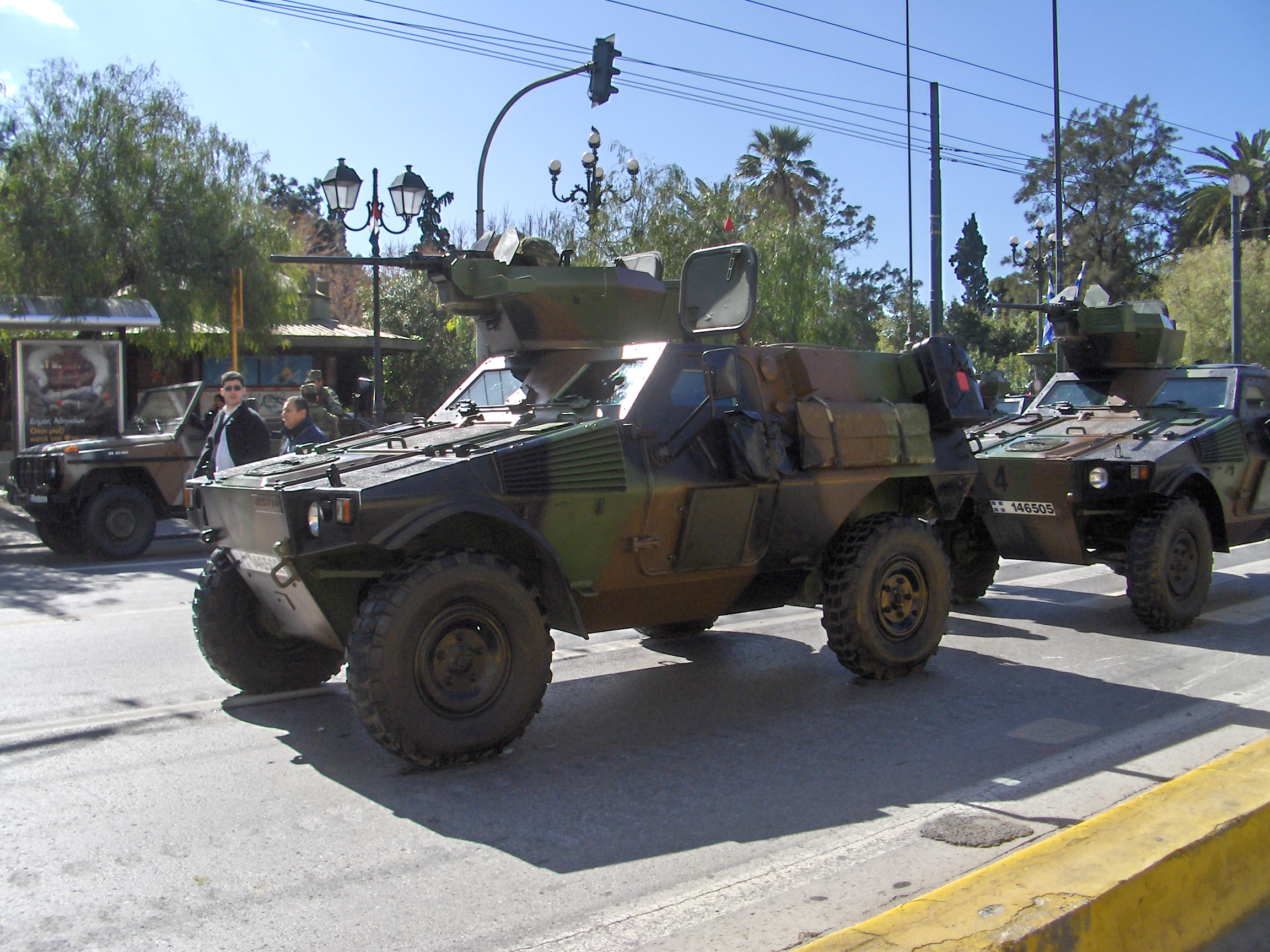 Hellenic Army armoured vehicle at the parade in Athens.